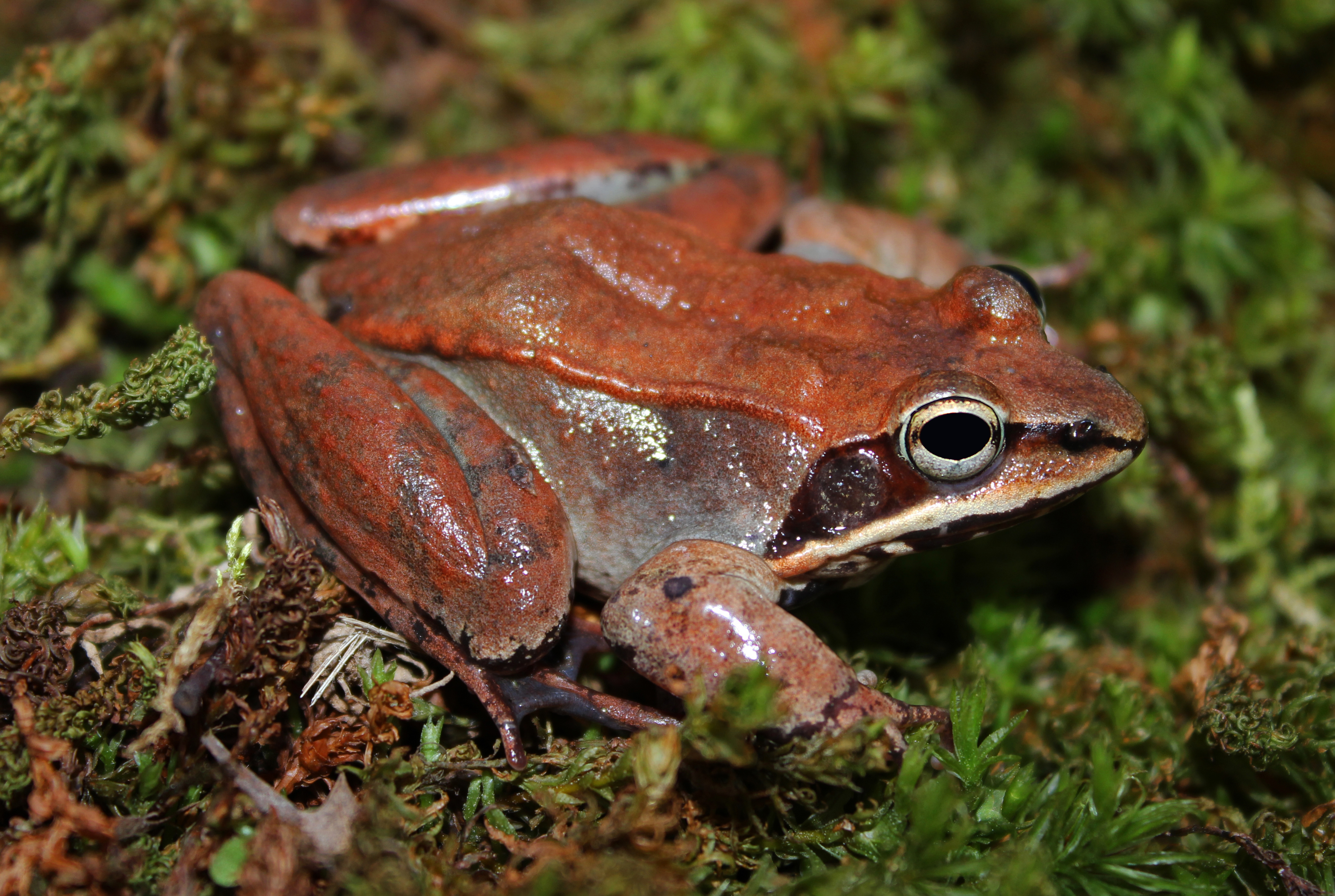 March 7th, 2016 High of 74 degrees Fahrenheit St. Louis County, Missouri